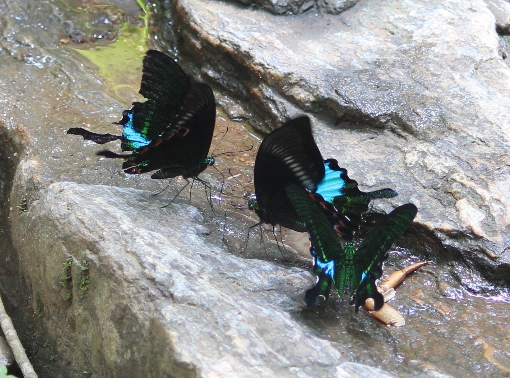 Mud-puddling Paris Peacock (Papilio paris) butterfly. Photographed near Irupu Falls, Karnataka.